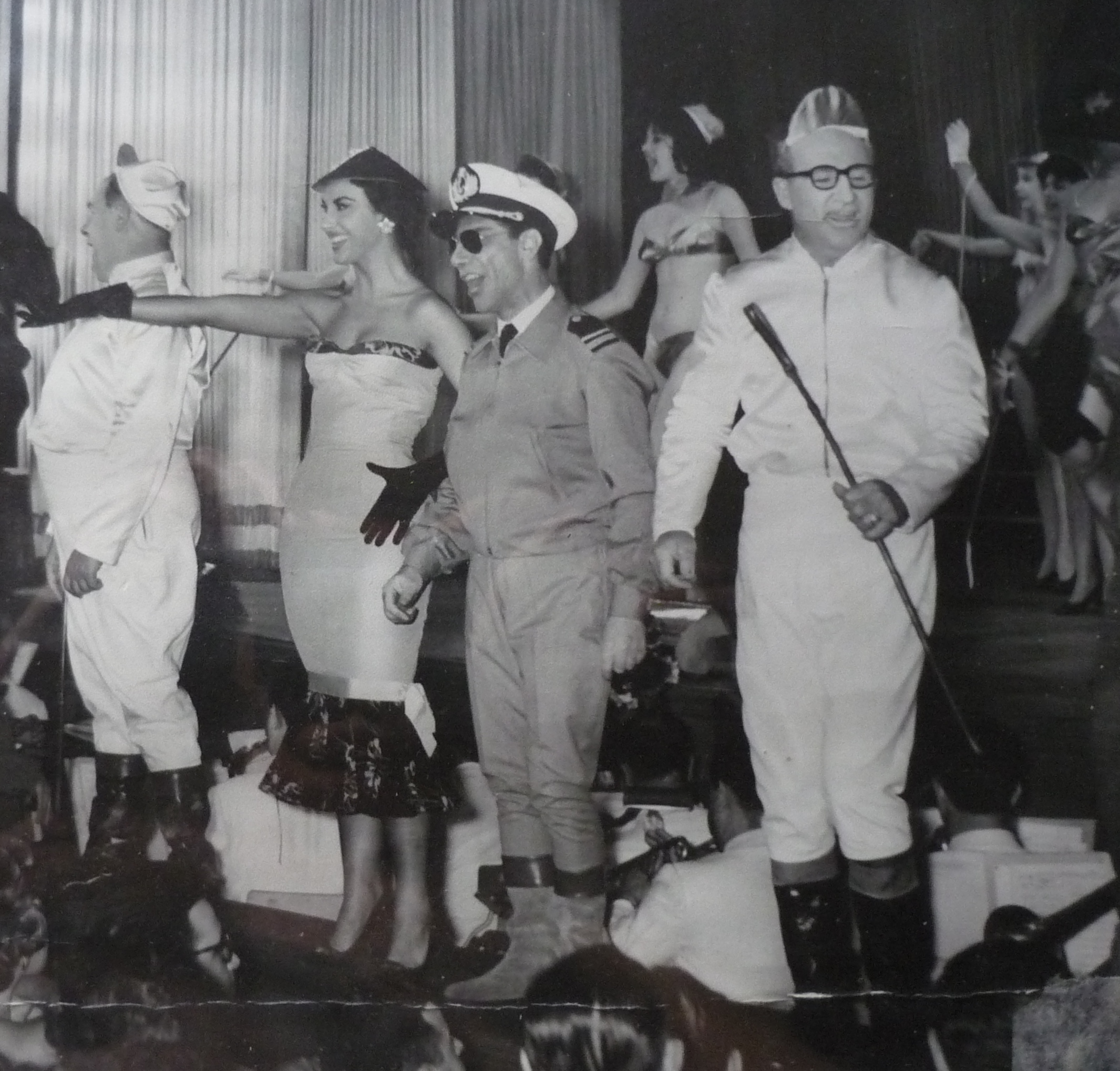 Vicente Formi